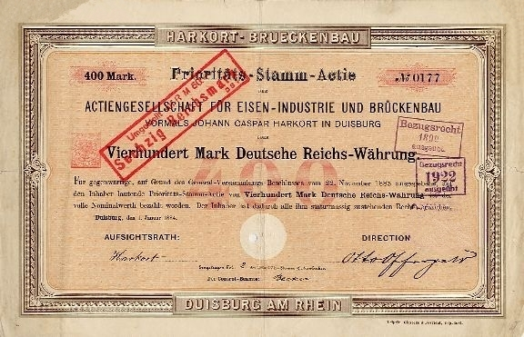 Bond Society J.C.Harkort 1883